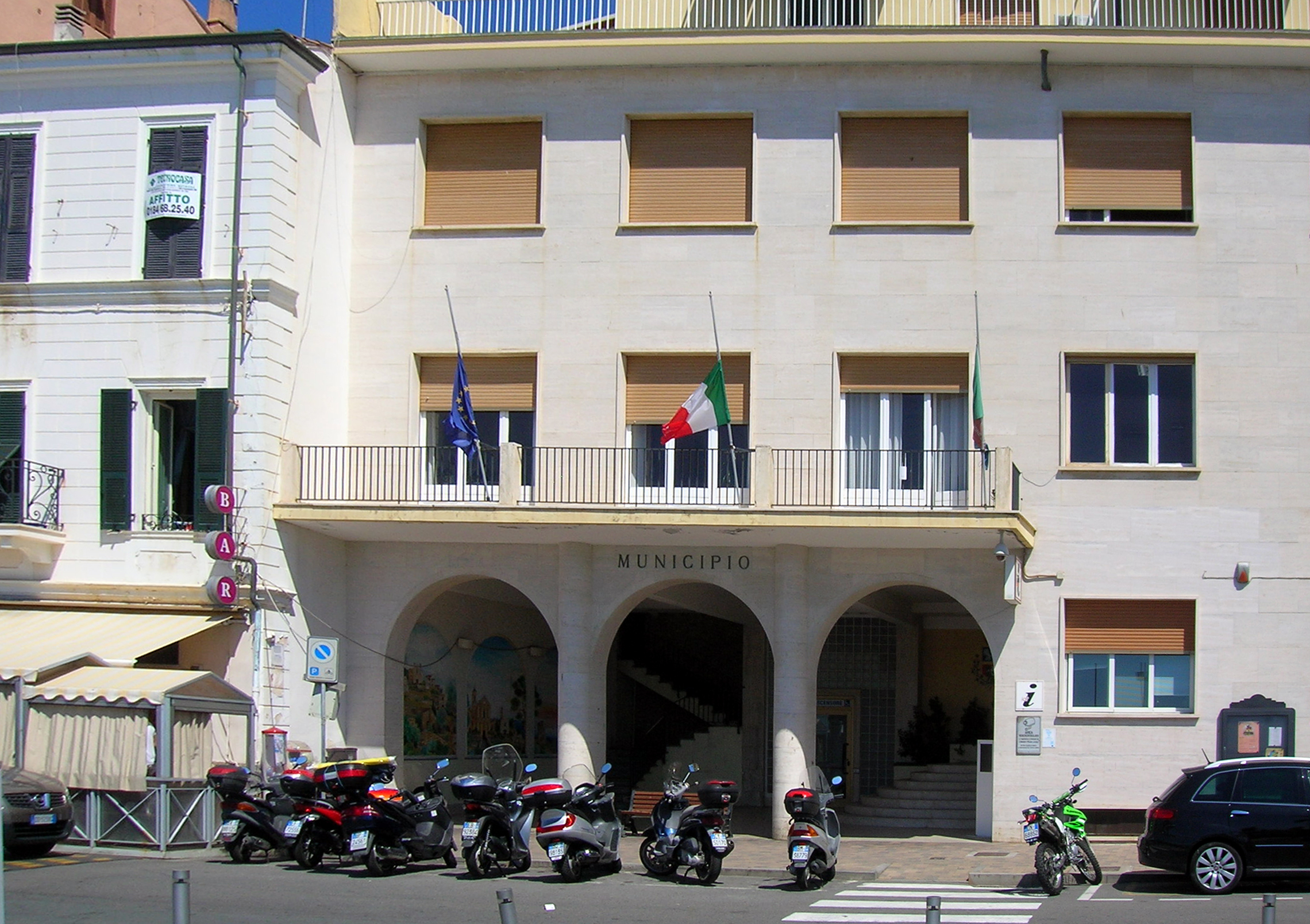 Town hall of Ospedaletti